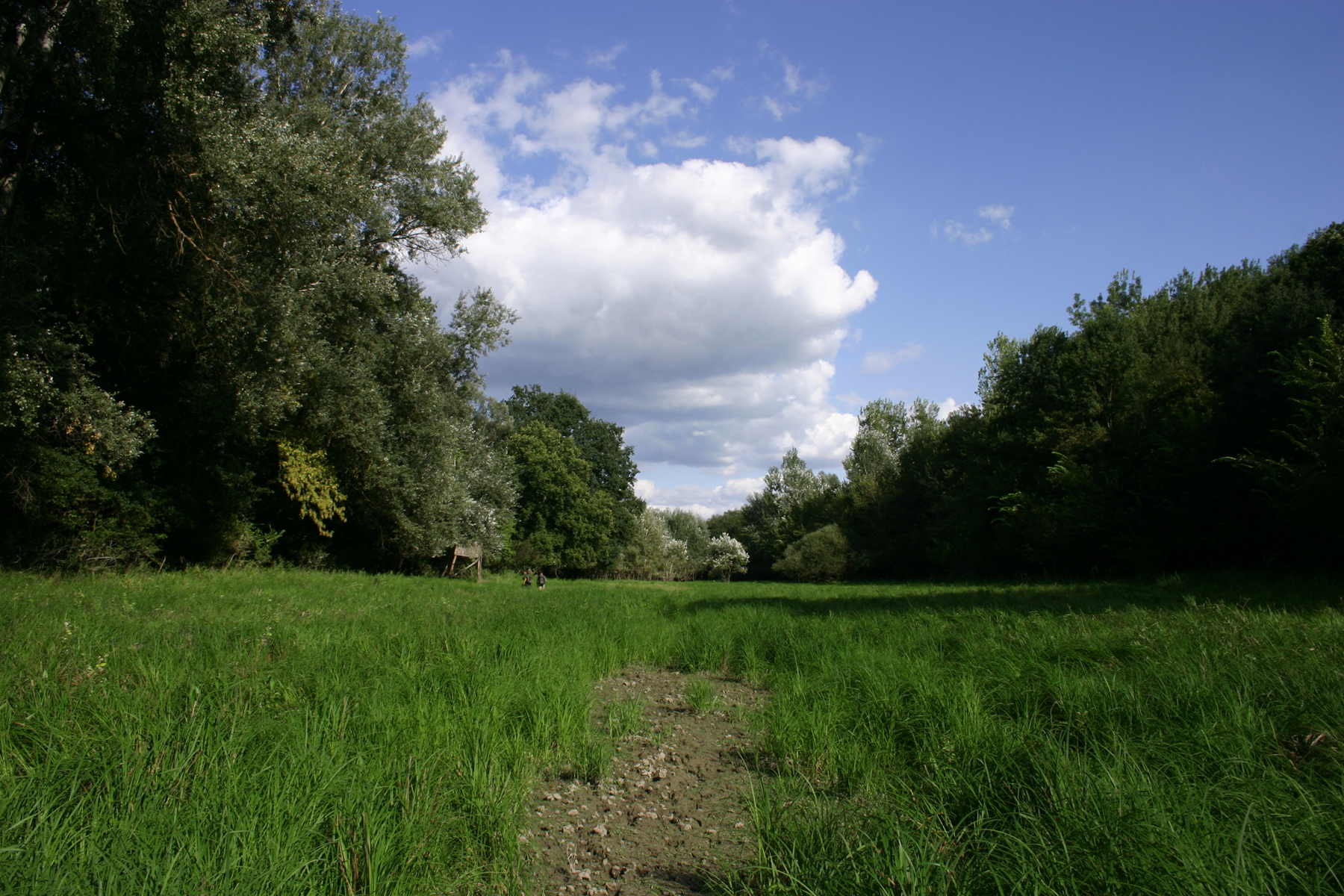 Typical landscape in Gemenc, Danube-Drava National Park, Hungary